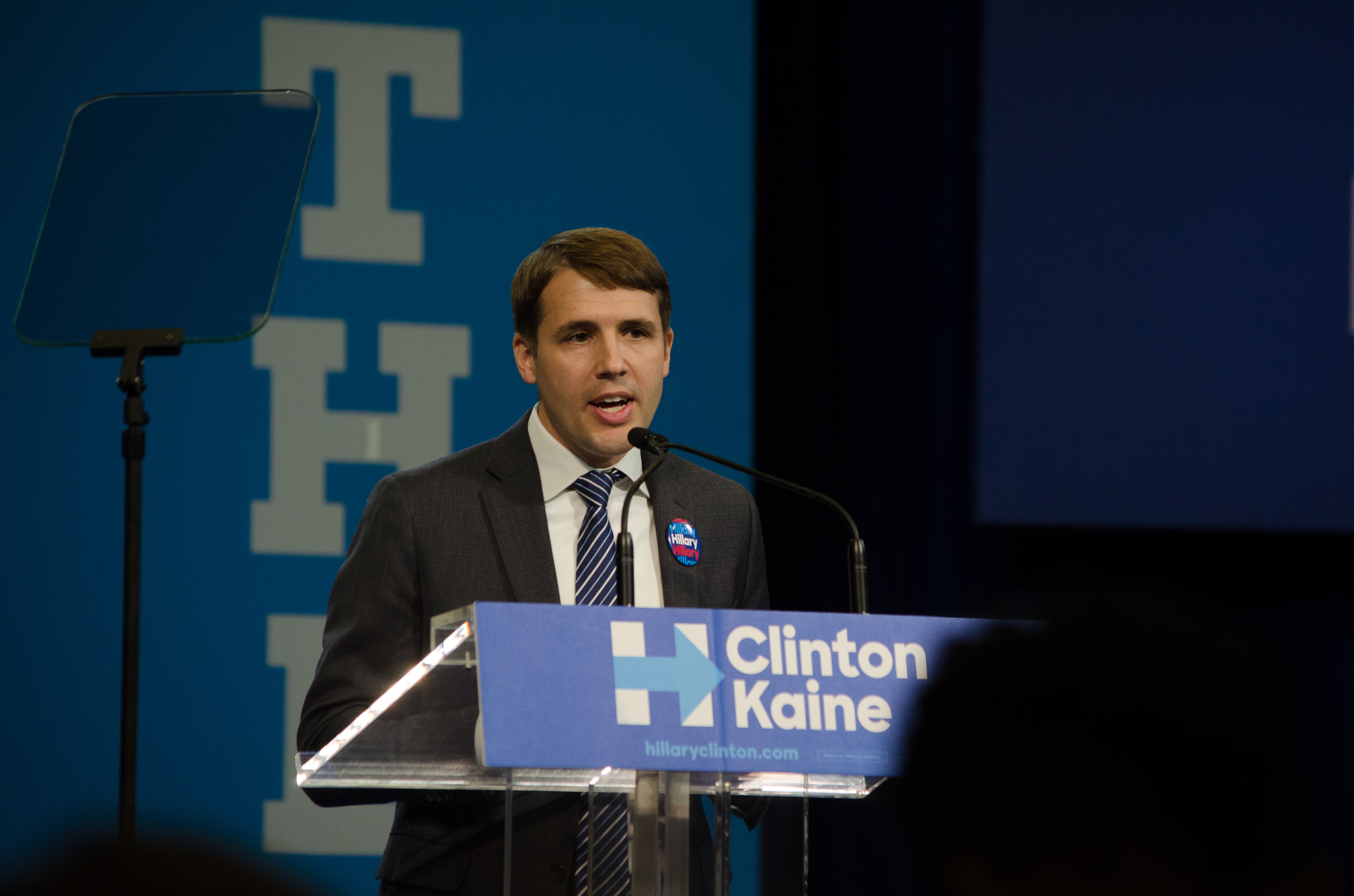 Chris Pappas, member of the New Hampshire Executive Board, speaks at a Hillary Clinton presidential rally at Southern New Hampshire University.